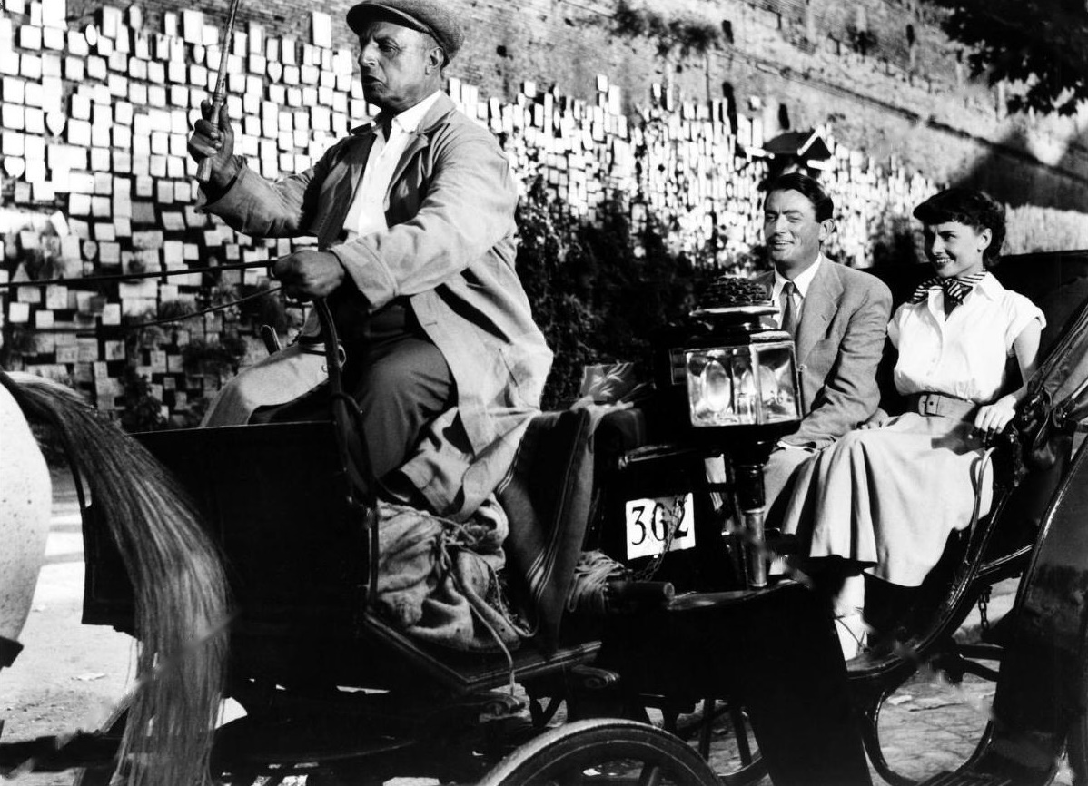 Gregory Peck & Audrey Hepburn still taken for film Roman Holiday (1953). See also film still. No copyright notice.